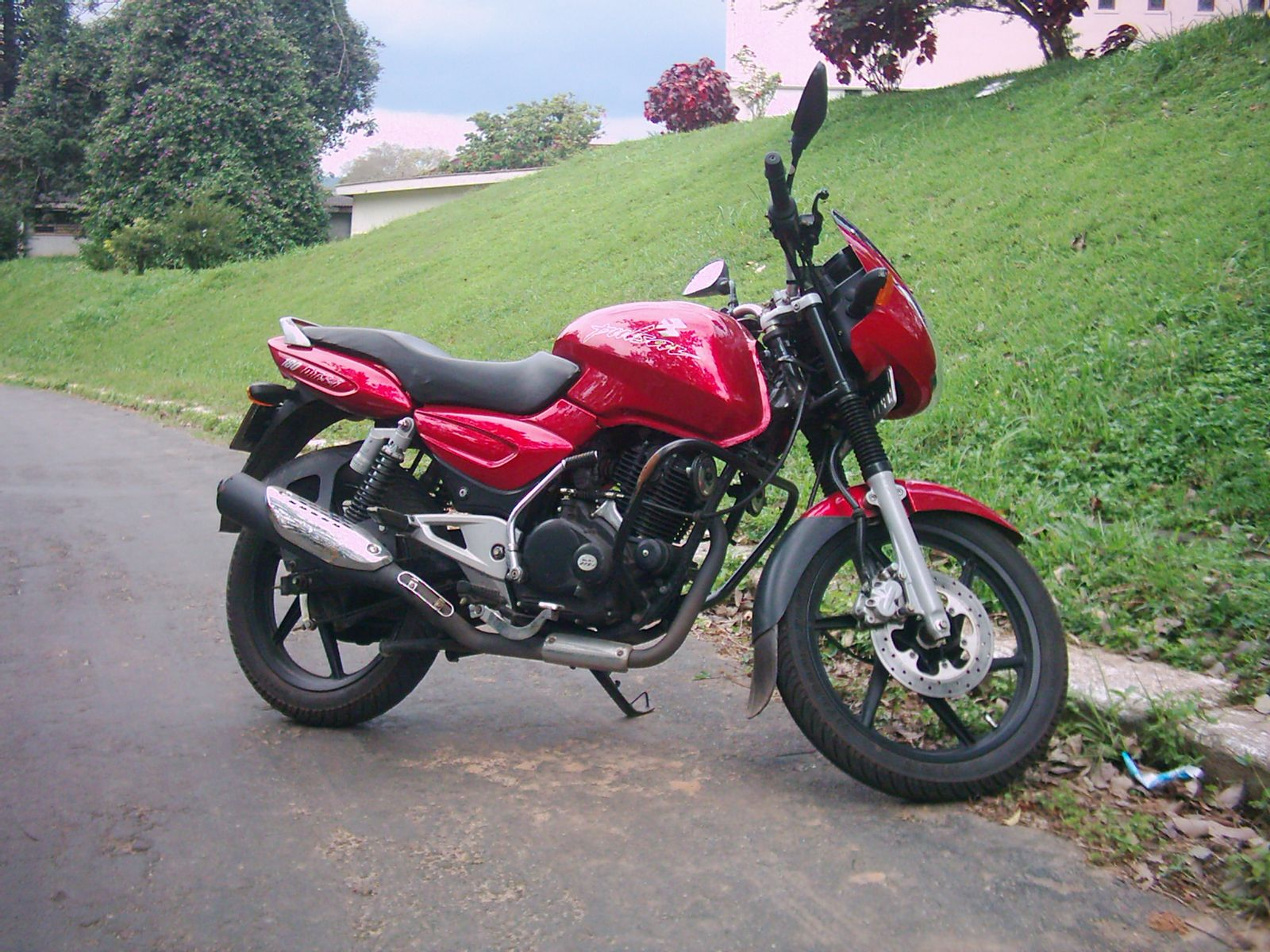 Bajaj Pulsar 180 motor bike